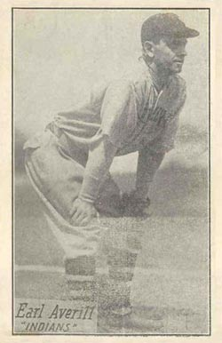 1928 Kashin Publication R315 baseball card of Earl Averill of the Cleveland Indians, PD-not-renewed.